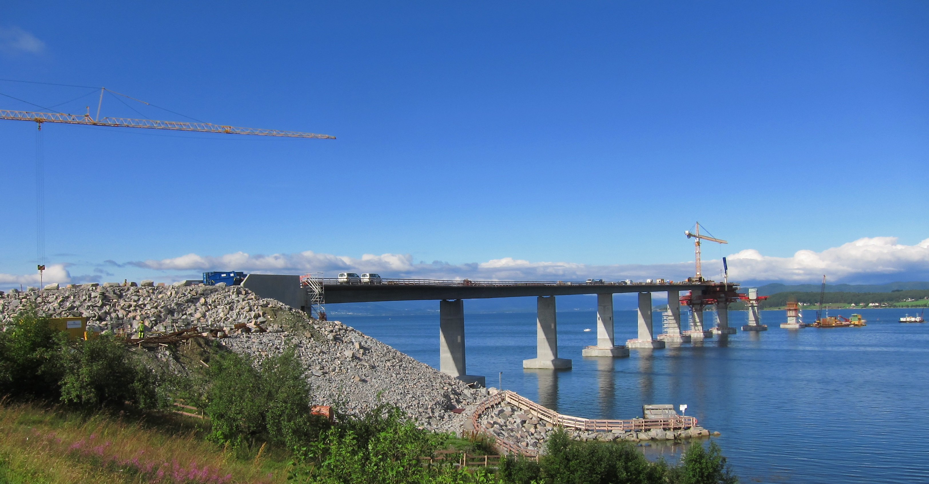 Tresfjord bridge, part of road E136, Norway